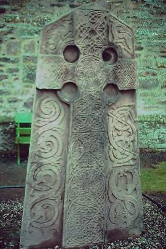 The Kirkyard Stone, Aberlemno, Angus, Scotland, UK